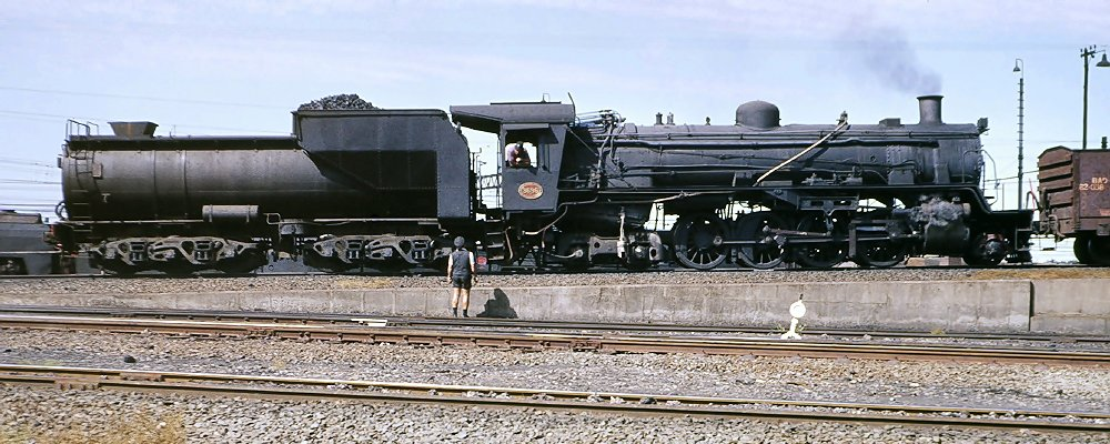 SAR class 24 operating coal stage service at Beaconsfield Loco Depot, Kimberley, South Africa. Number of the locomotive shown is 24 3696.